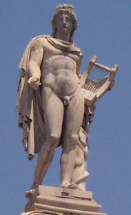 Apollo on the column, in the modern Academy of Athens